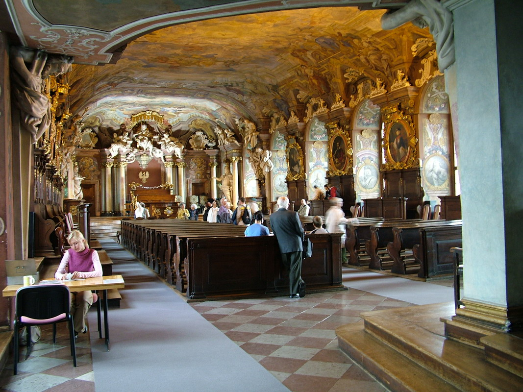 Wroclaw University - Aula Leopoldina Author: Stako 10:12, 22 September 2005 (UTC)